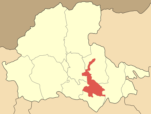 Locator map of Megalou Aleksandrou municipality (Δήμος Μεγάλου Αλεξάνδρου) at Pellas perfecture, Macedonia, Greece.